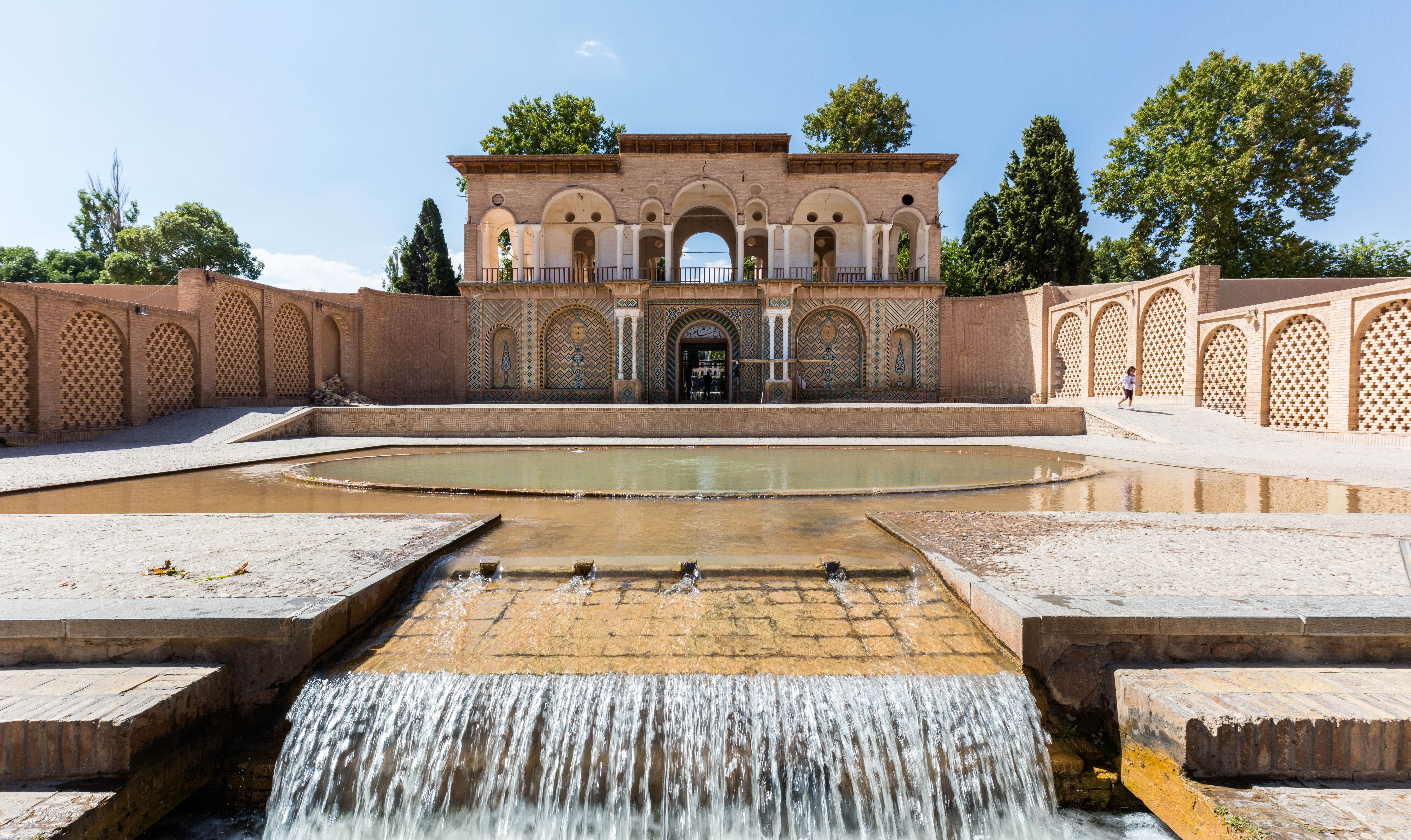 Shazdeh Garden, Mahan, Iran